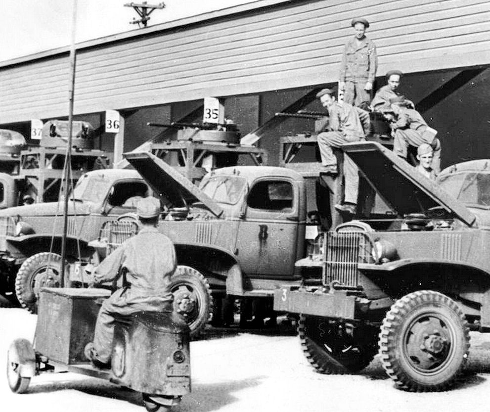 Buckingham Army Airfield - motor pool of machine gun turrent training trucks 1944